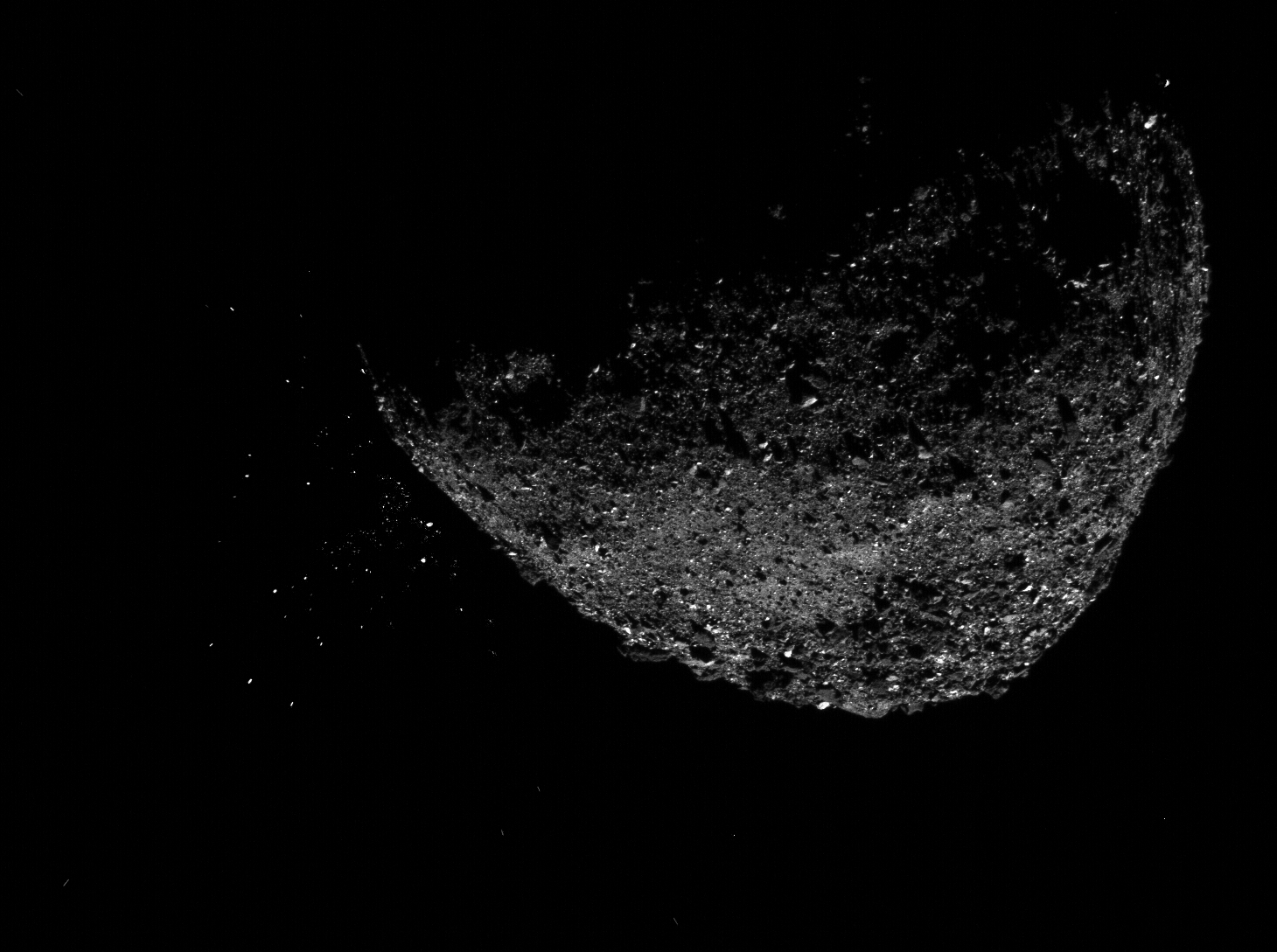 This view of asteroid Bennu ejecting particles from its surface on Jan. 6, 2019, was created by combining two images taken by the NavCam 1 imager aboard NASA's OSIRIS-REx spacecraft: a short exposure image, which shows the asteroid clearly, and a long-exposure image (five seconds), which shows the particles clearly. Other image-processing techniques were also applied, such as cropping and adjusting the brightness and contrast of each layer.